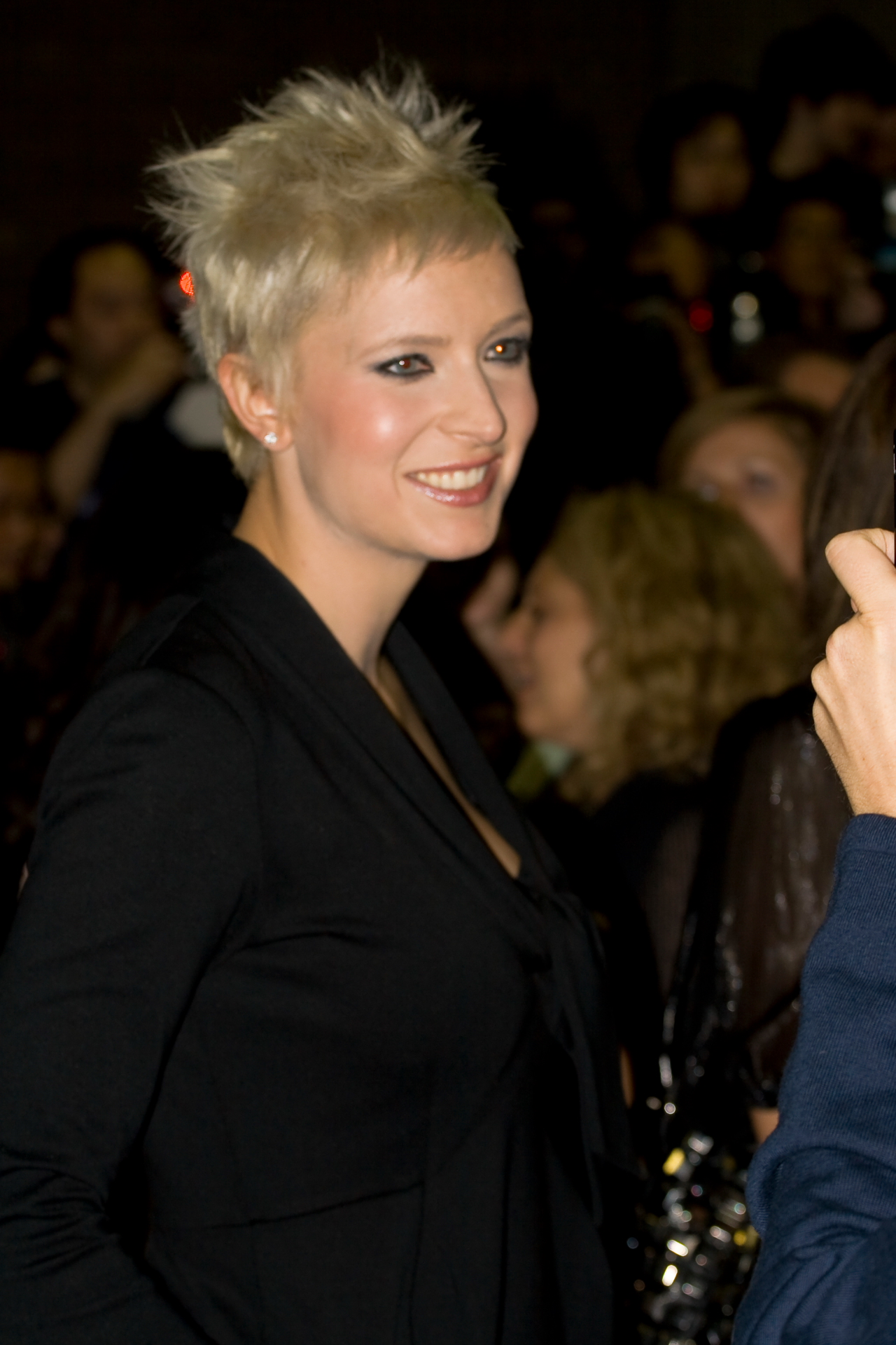 Diablo Cody at the premiere of Jennifer's Body, during Midnight Madness at the Toronto International Film Festival, 2009.